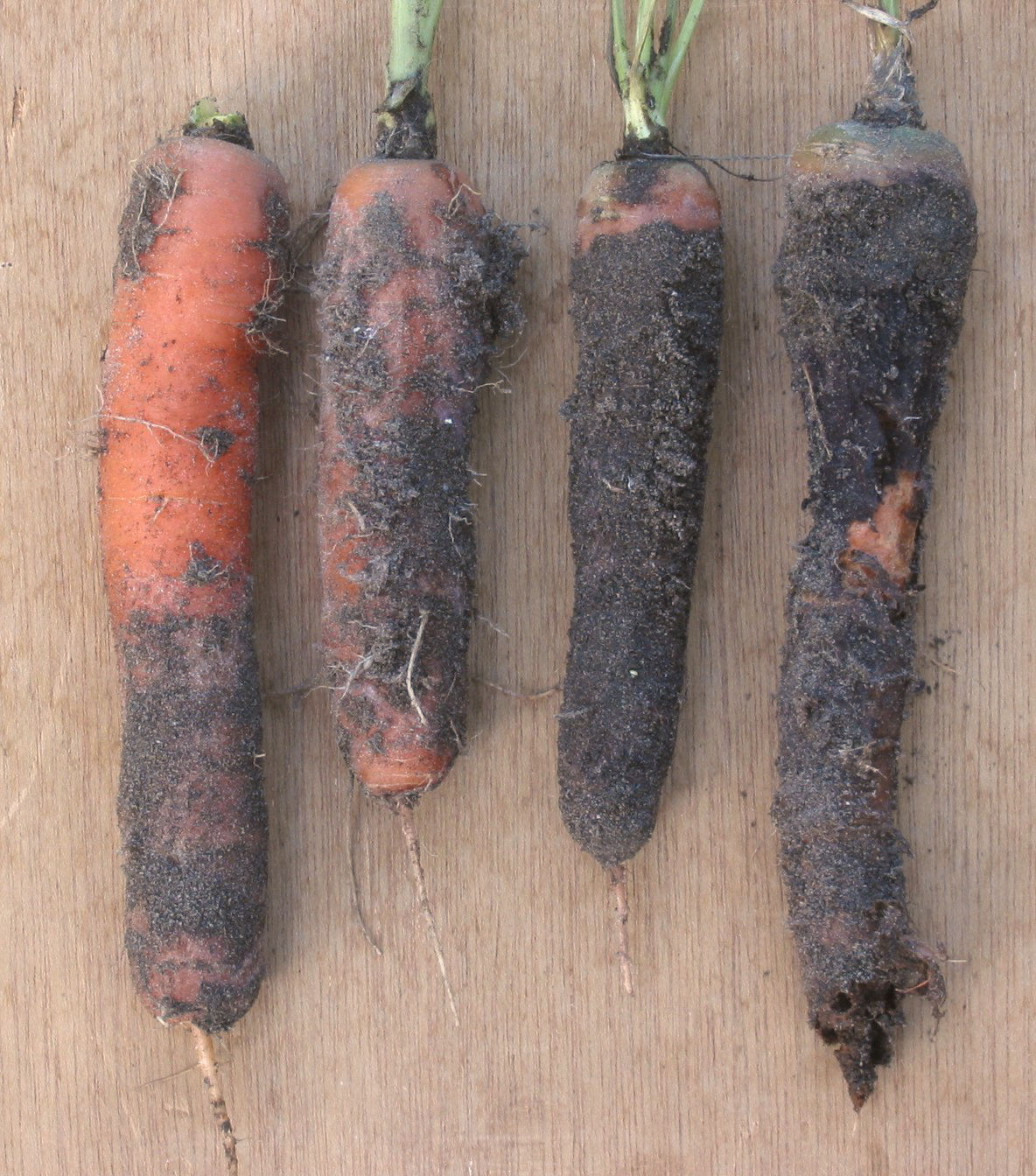 Helicobasidium brebissonii on Daucus carota